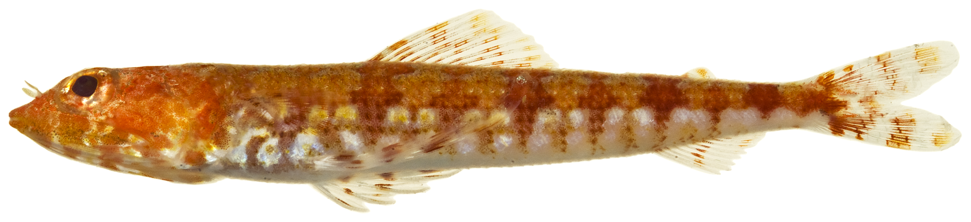 Synodus synodus (Linnaeus, 1758)—red lizardfish, 42.5 mm SL. Photo by JT Williams.